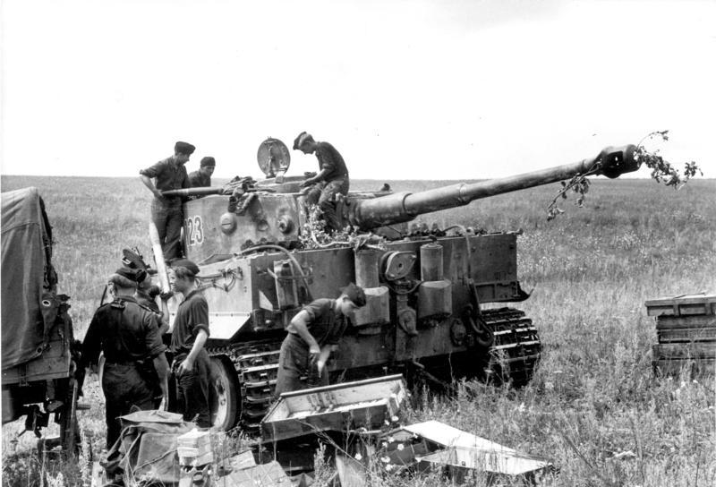 Information added by Wikimedia users.Mid 1943, 1st company, sPzAbt.503, Russia